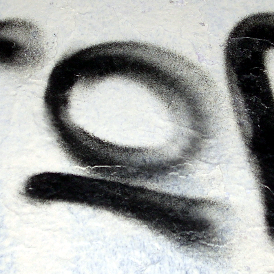 Letter omega